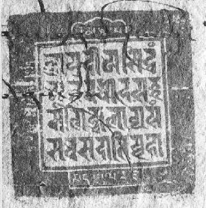 Seal of the Ladakhi King Tshewang Namgyel (18th Century)